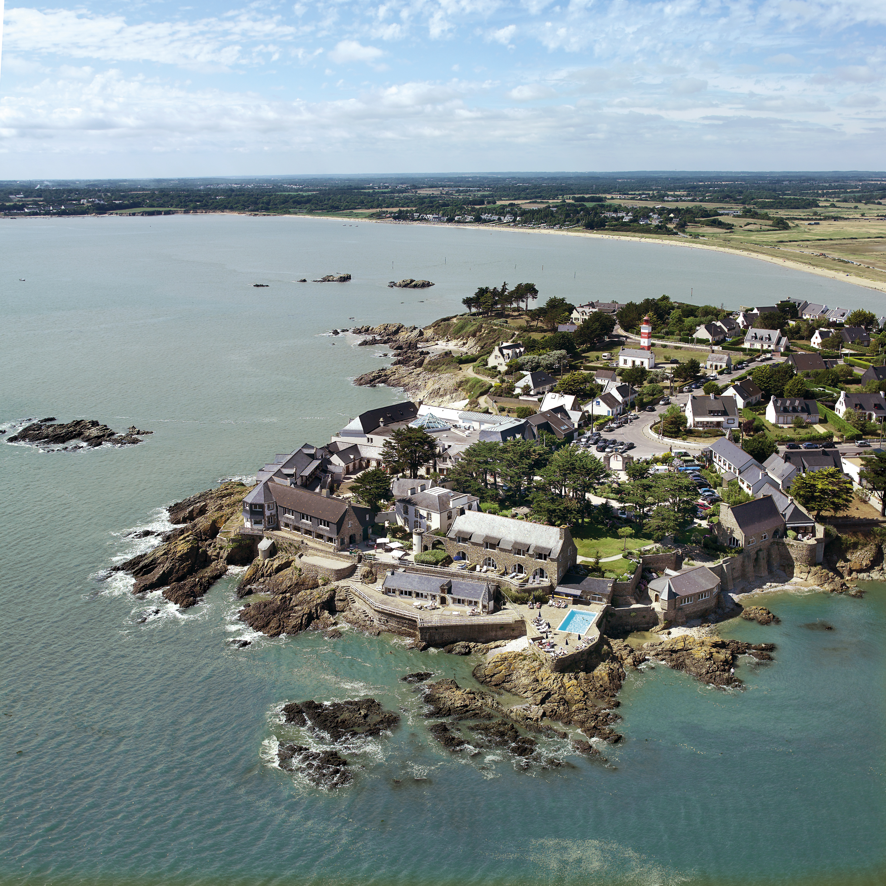 Rochevilaine's Estate